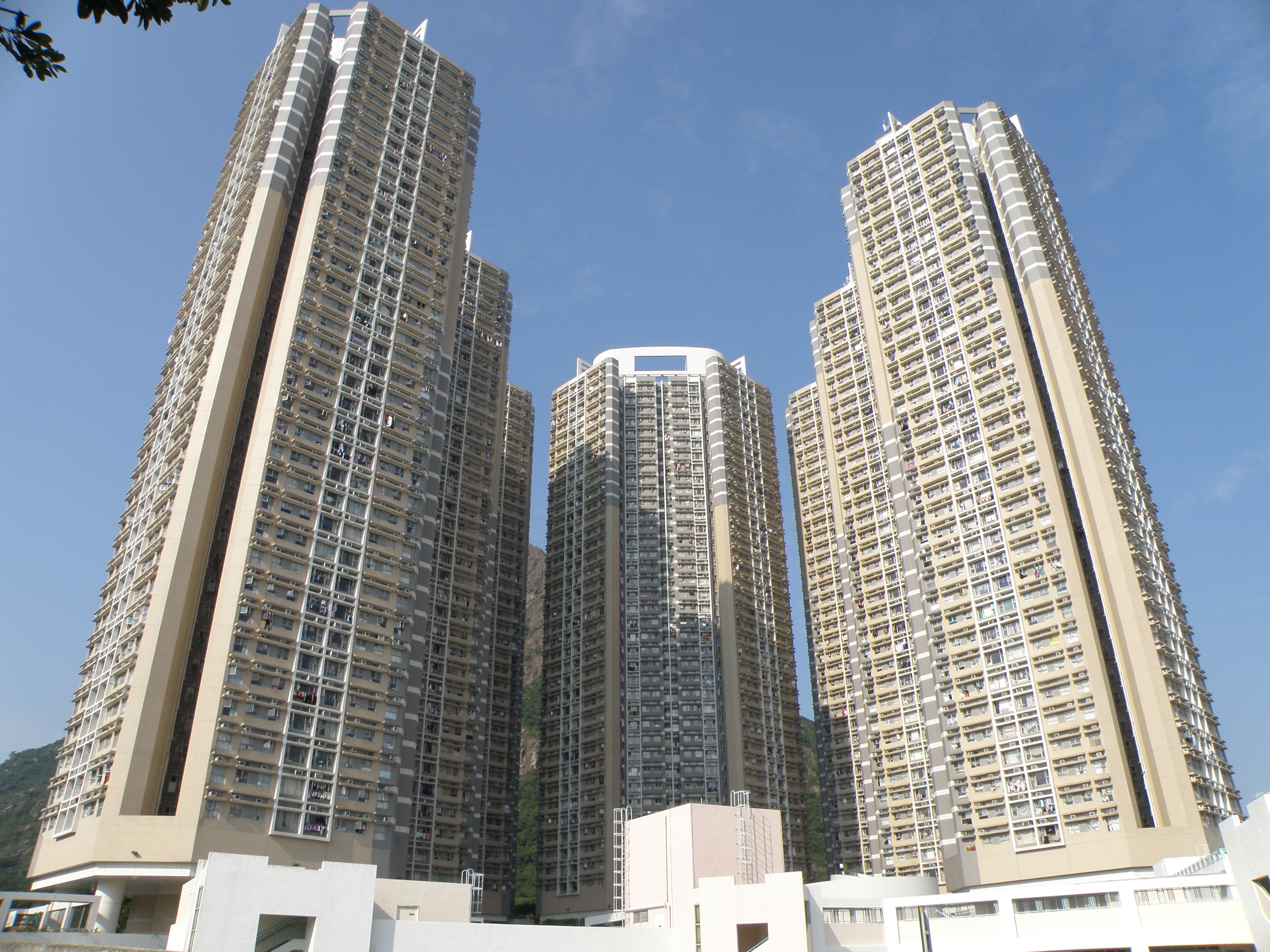 Shun Lee Disciplined Services Quarters in Sau Mau Ping, Hong Kong.